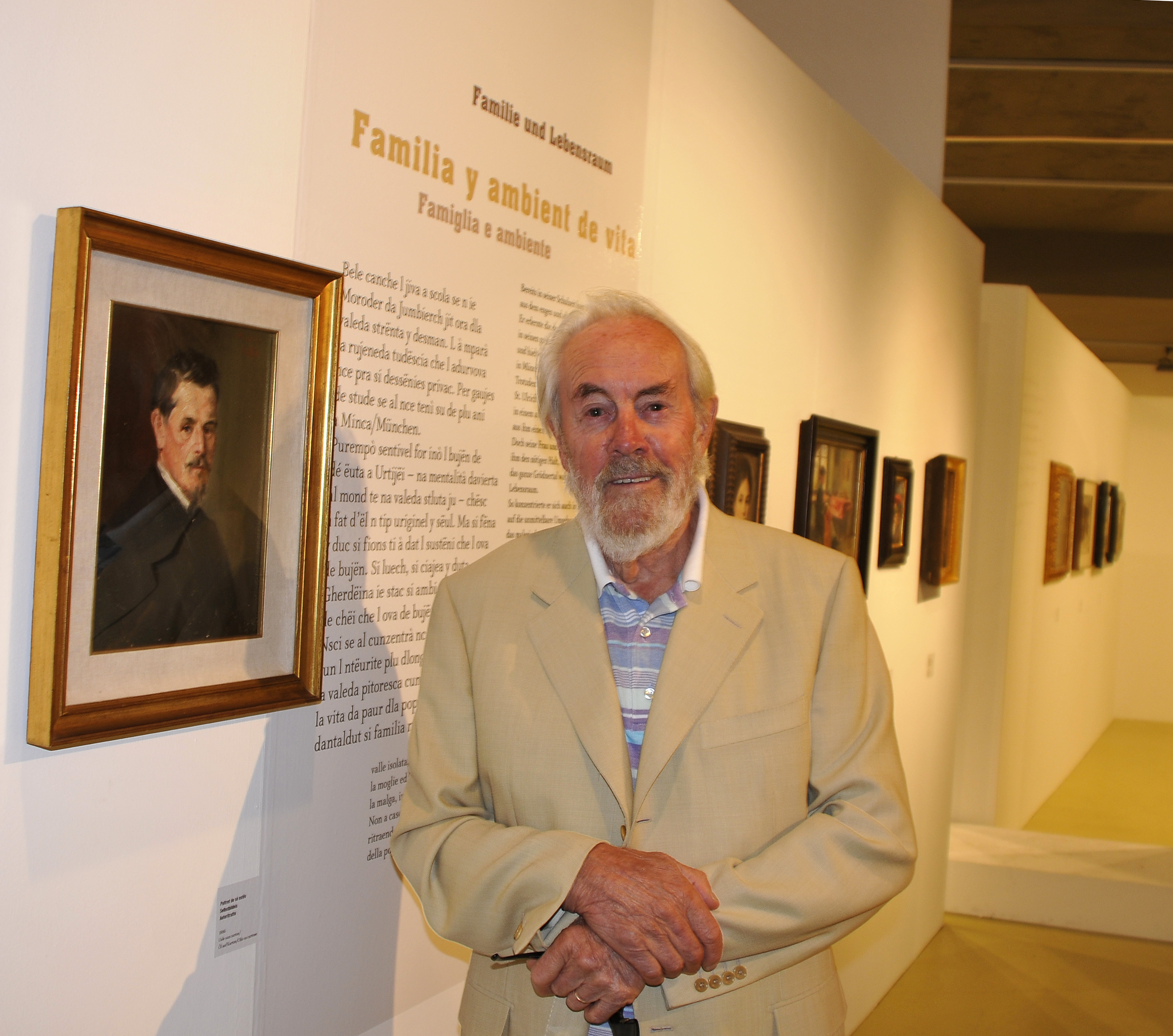 Adolf Vallazza from Gröden nephew of Josef Moroder Lusenberg